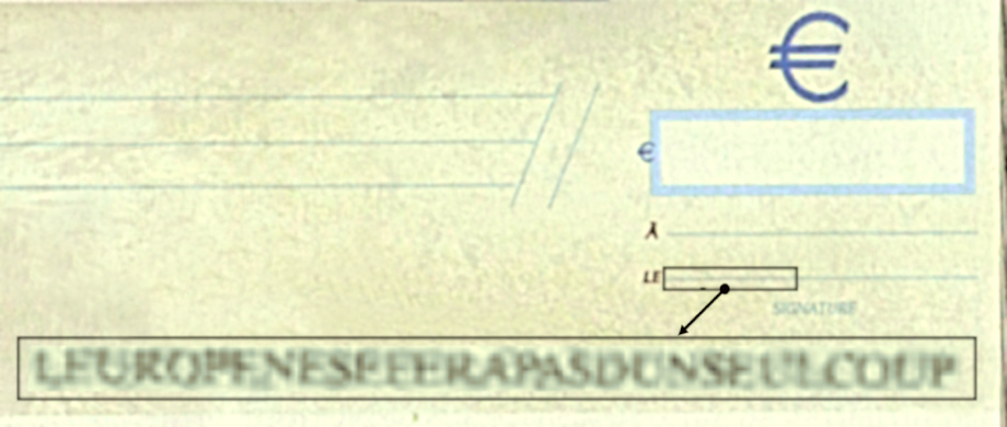 France: part of a cheque from La Banque postale.